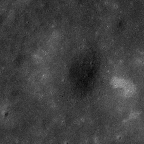 Mackin crater, Taurus–Littrow valley, on the moon. Sun elevation 46 deg., spacecraft altitude 112 km.